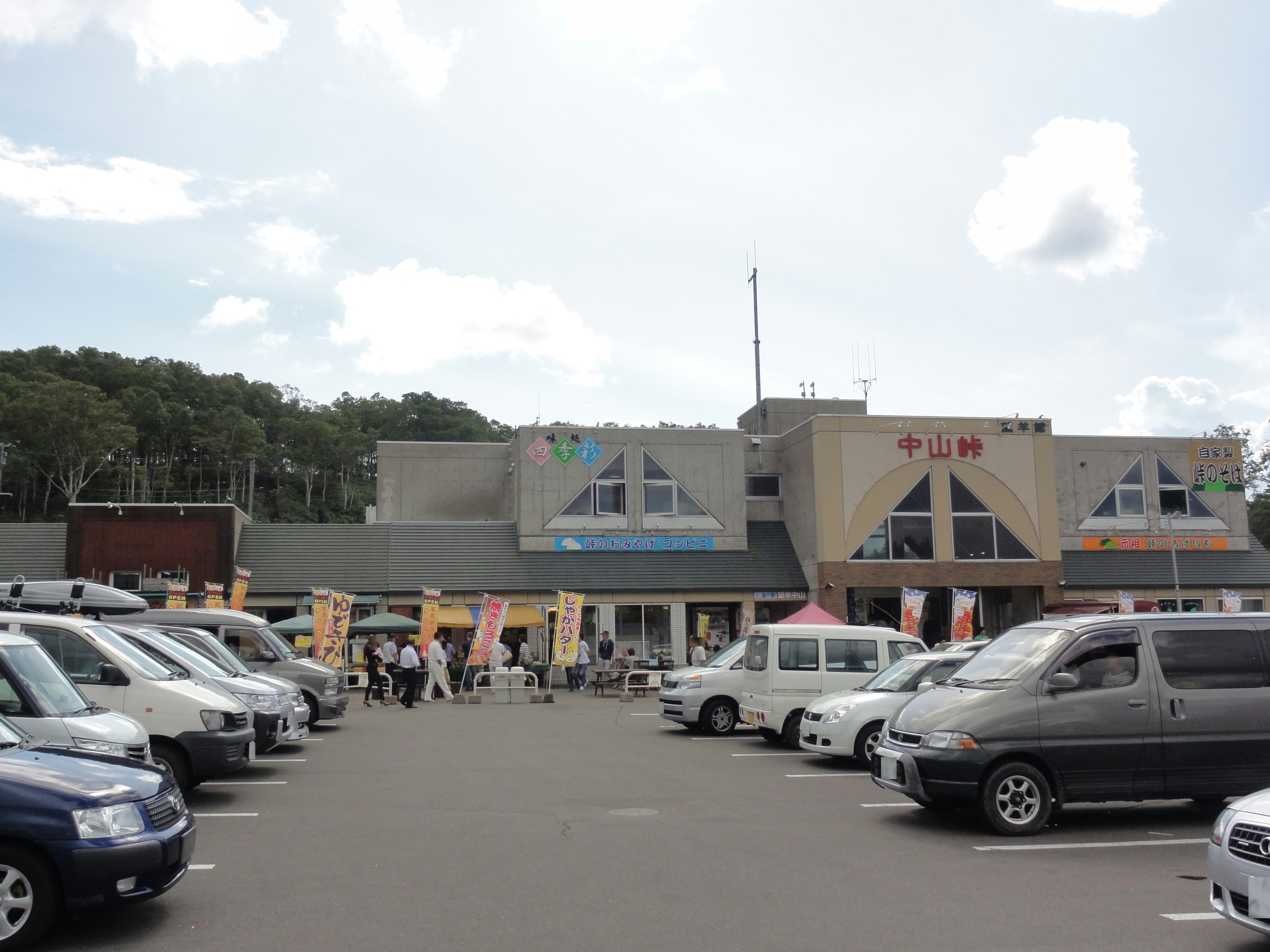 Michinoeki(Roadside Station) Bo-yo Nakayama (Kimobetsu, Hokkaidō)